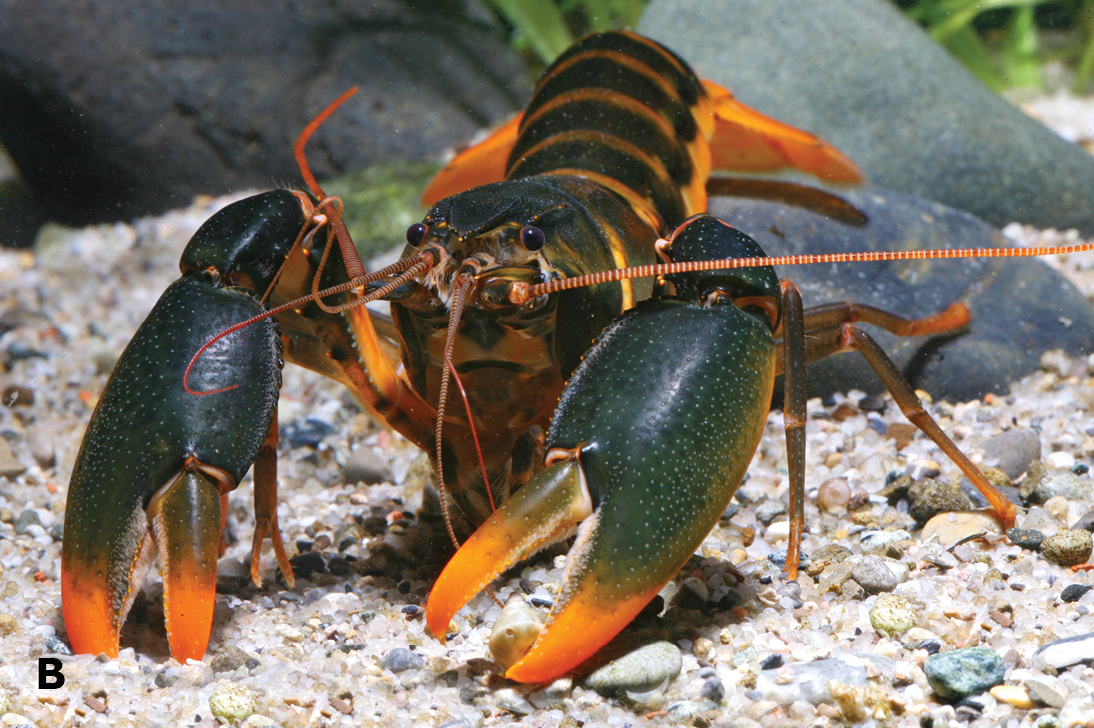 Cherax snowden. Male from aquarium import from Indonesia.